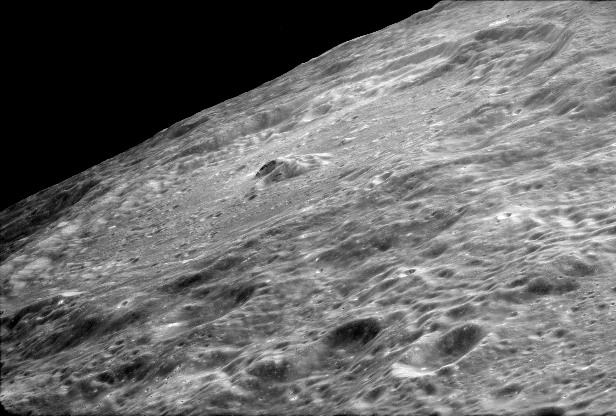 Oblique view of Sklodowska crater, facing southwest, on the moon. Taken by Apollo 17 panoramic camera.